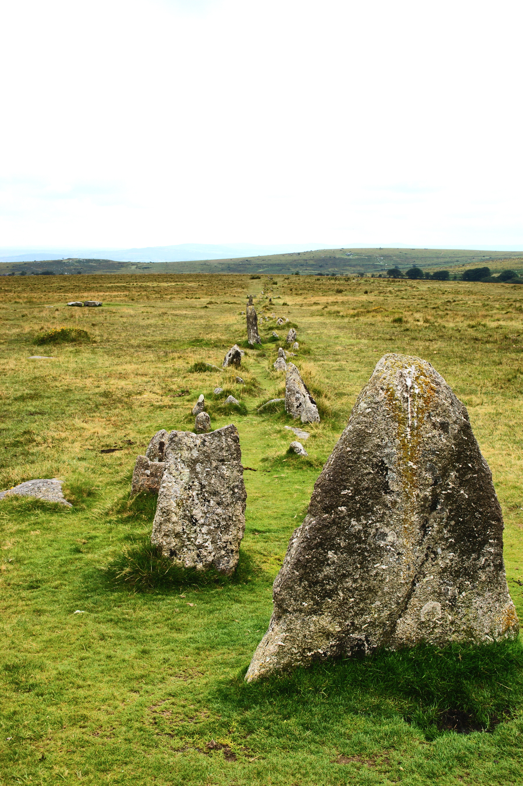 Southermost double stone row at Merrivale (Dartmoor). To the left of the image at the centre can be seen one of the kistvaens there.